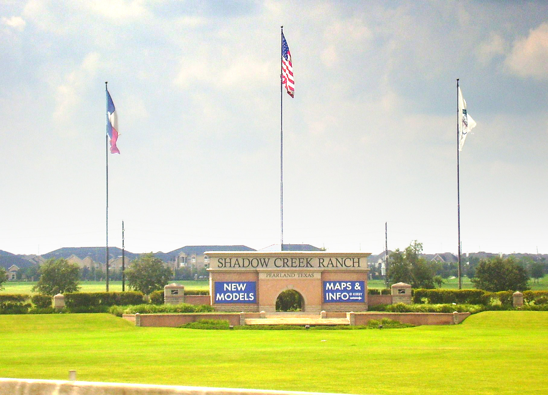 Shadow Creek Ranch, a neighborhood of Pearland